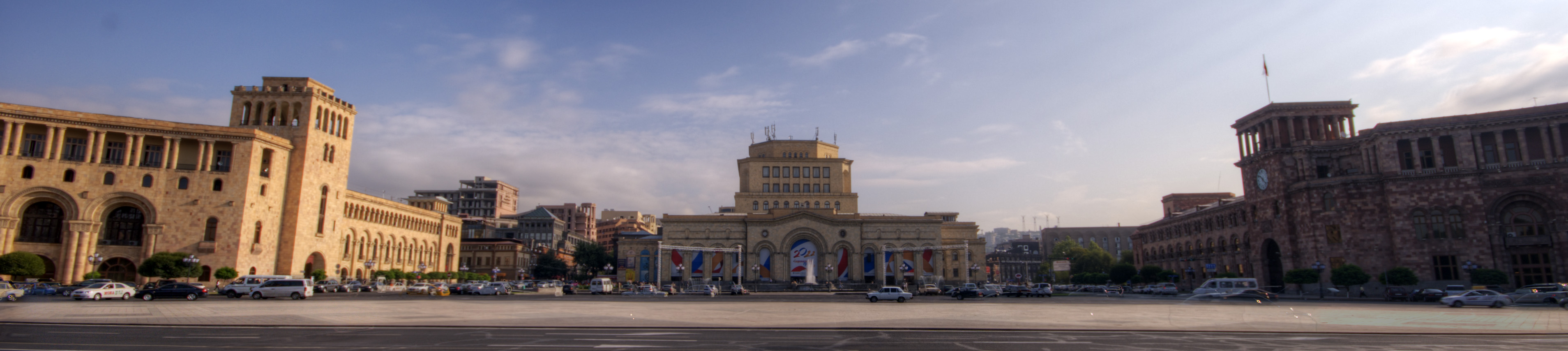 National Gallery of Armenia and governmental buildings at the sides, photo taken from the Republic Square